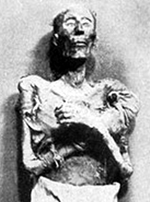 close up of image of Ramses II mummy.